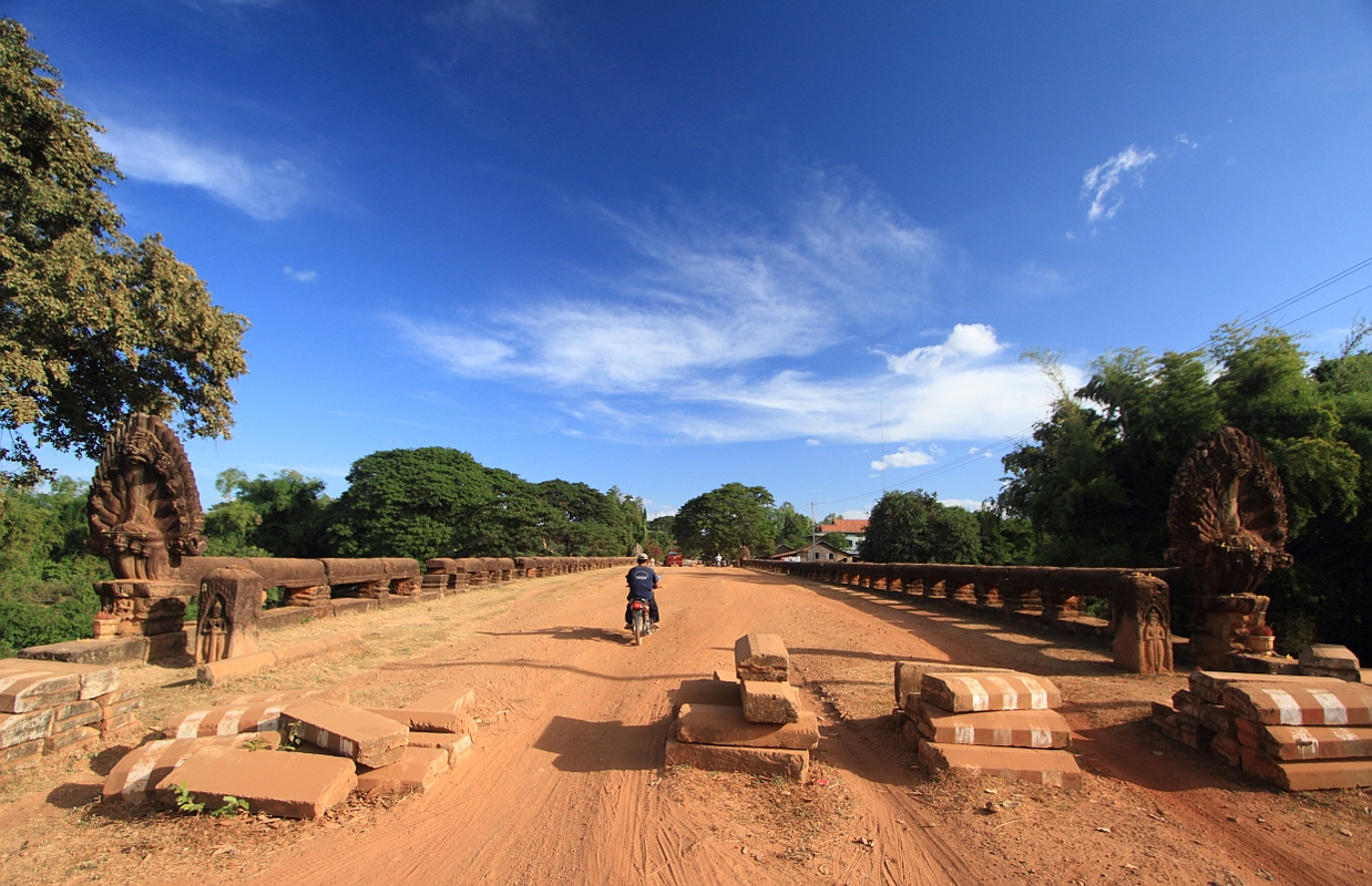 Spean Praptos, an old Khmer bridge in Kompong Kdei, Cambodia